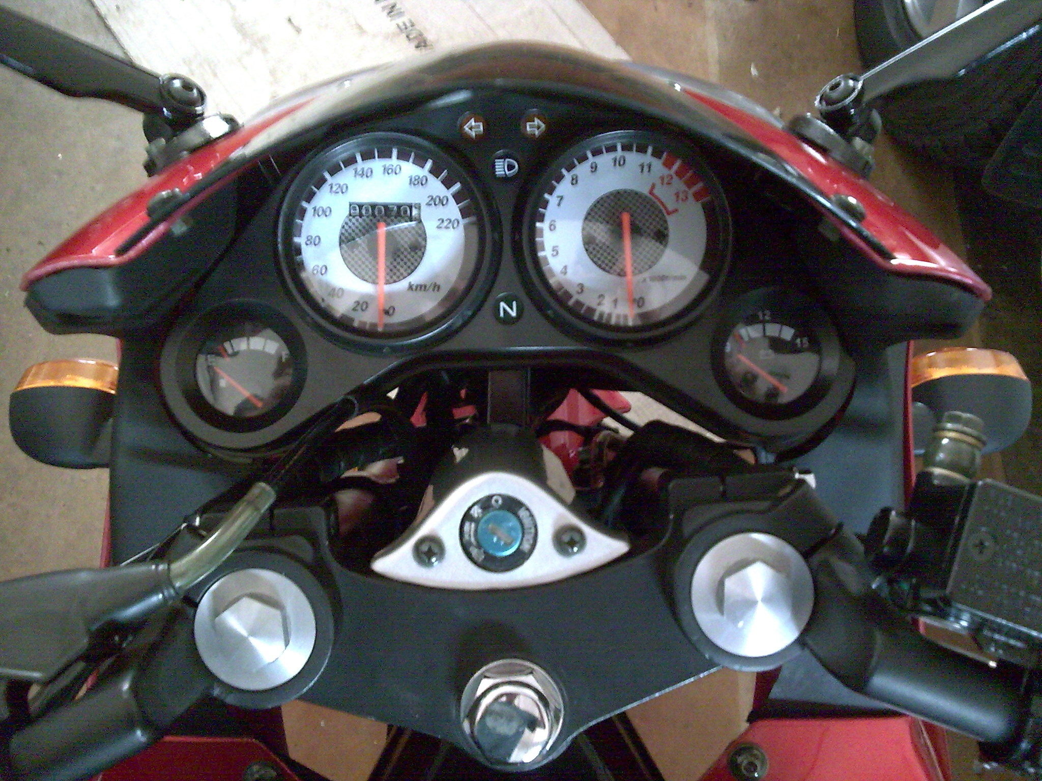 Onboard Instrument Panel of a Bashan 125R